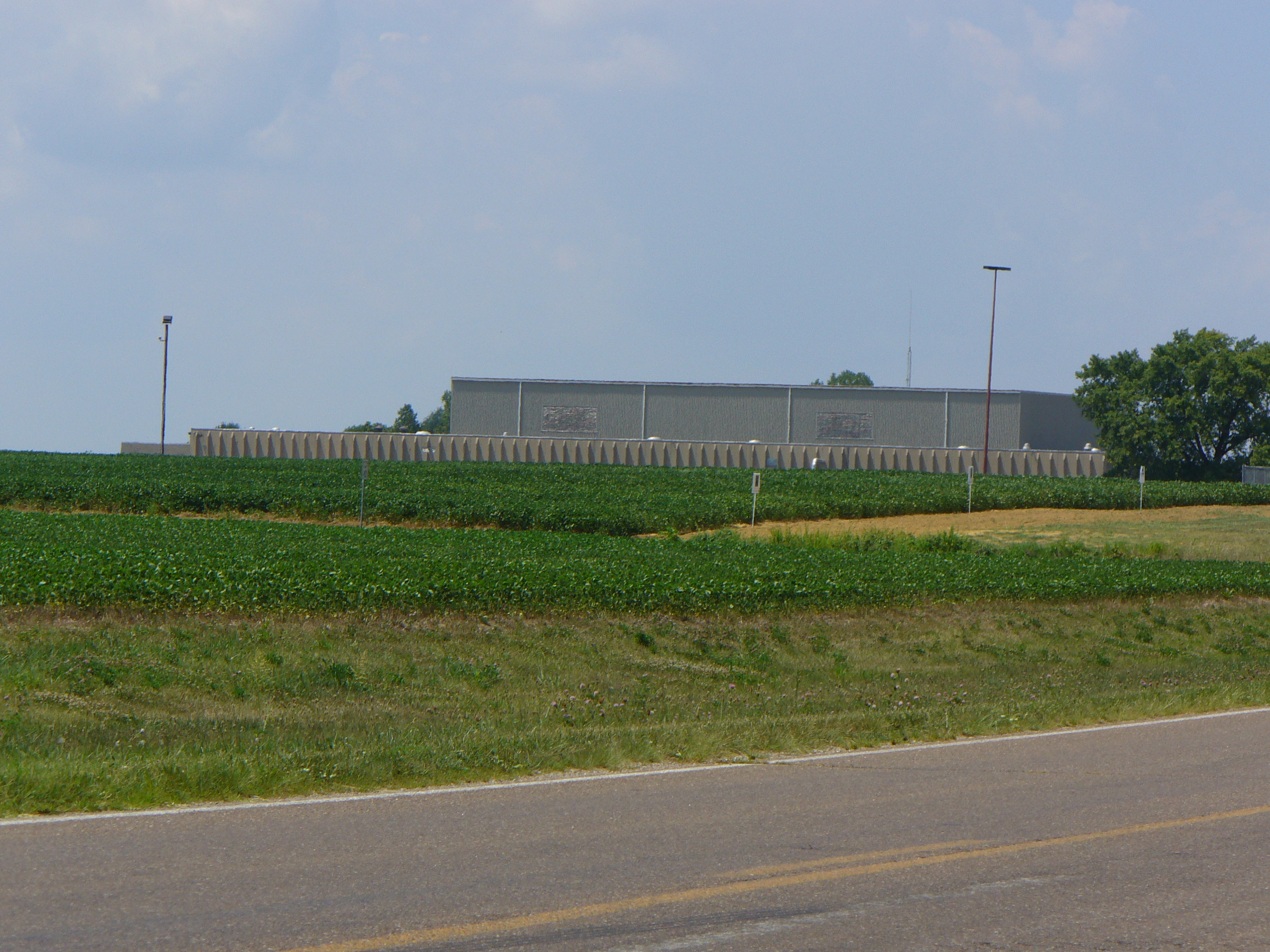 Gibson County Indiana - Gibson Southern P1010414